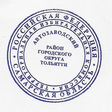 State seal for the documents to the Territorial election Commission of the Avtozavodsky district of city Tolyatti.